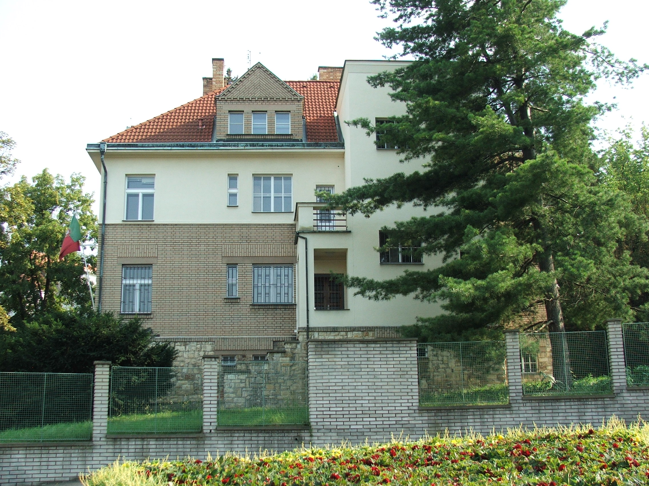 Embassy of Portugal in Prague - Střešovice, Czechia.